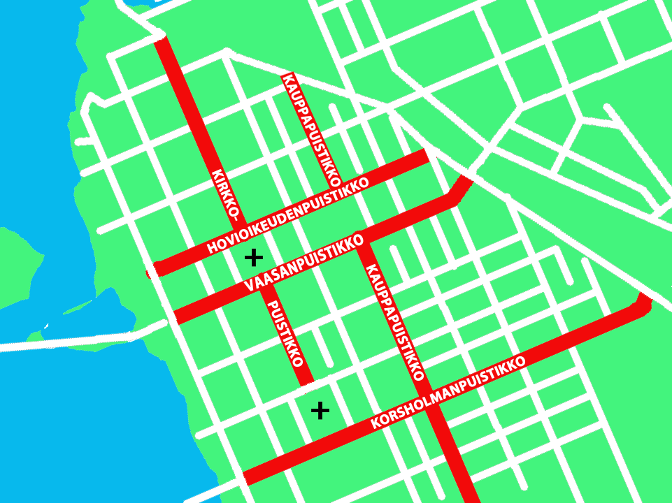 Vaasa street grid with the five esplanades highlighted: Hovioikeudenpuistikko, Kirkkopuistikko, Kauppapuistikko, Vaasanpuistikko, and Korsholmanpuistikko. Street grid derives from a master plan by Carl Axel Setterberg in 1855.